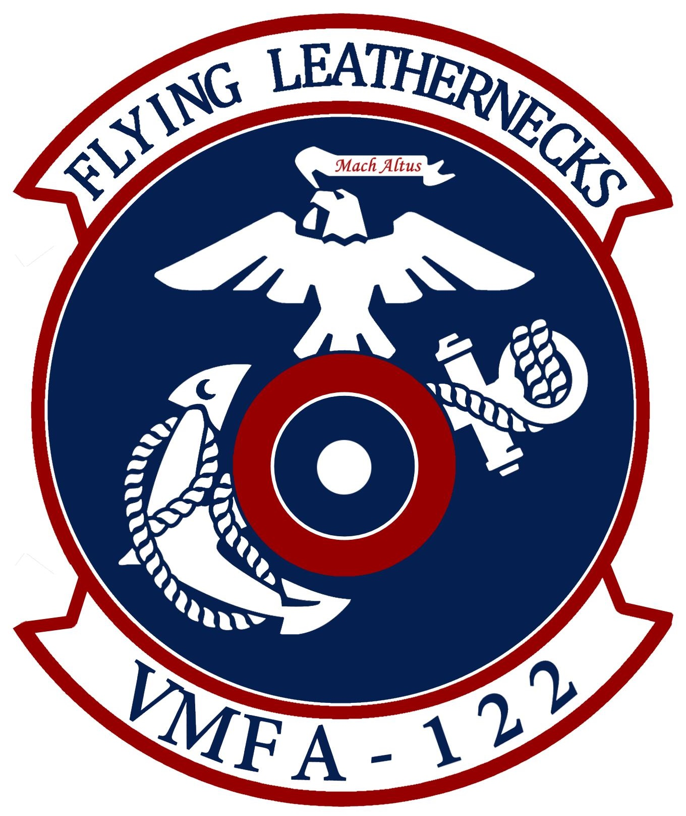 VMFA122 New Logo